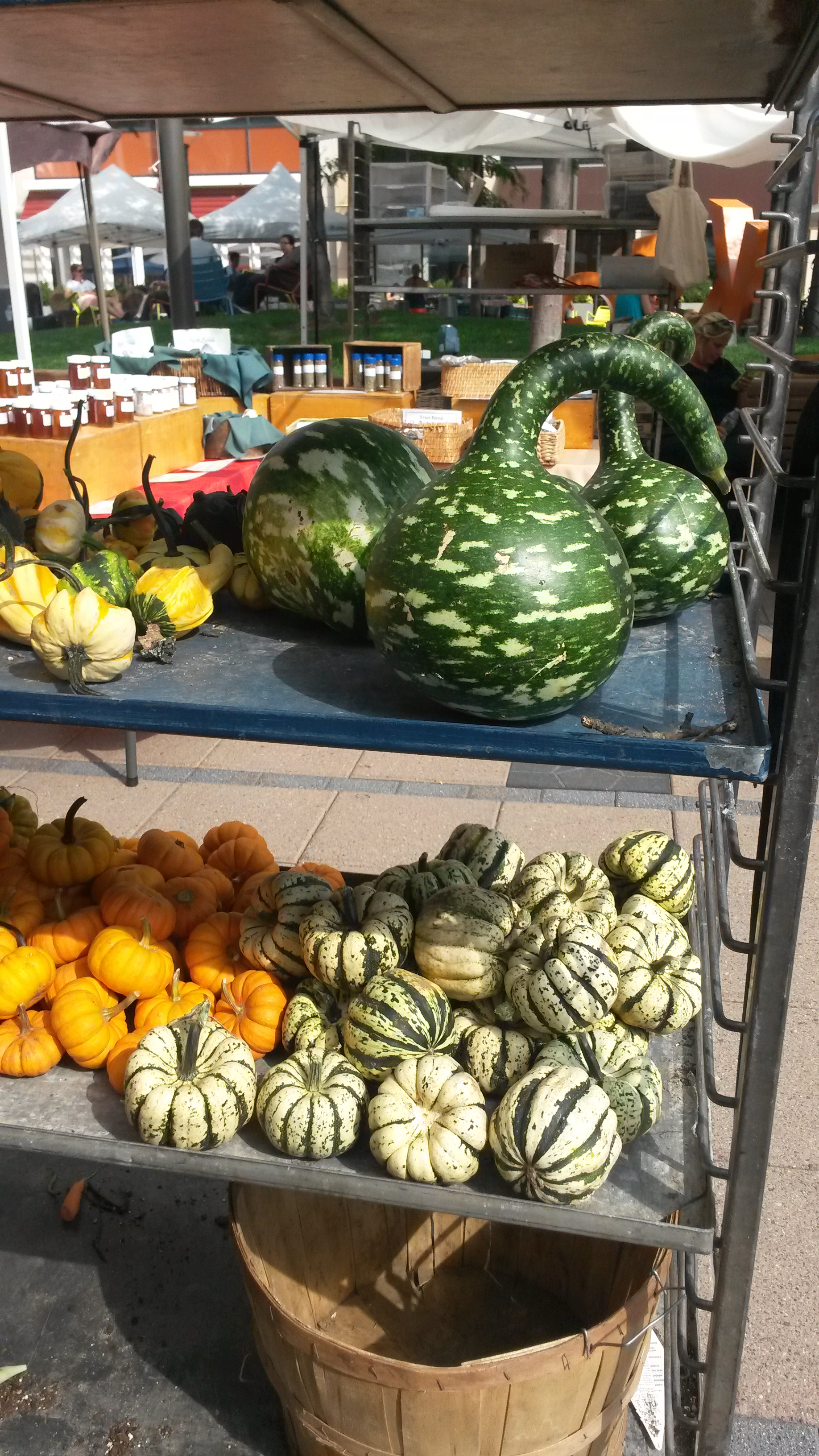 Դդումներ Քեմբրիջում gourds in Cambridge, MA